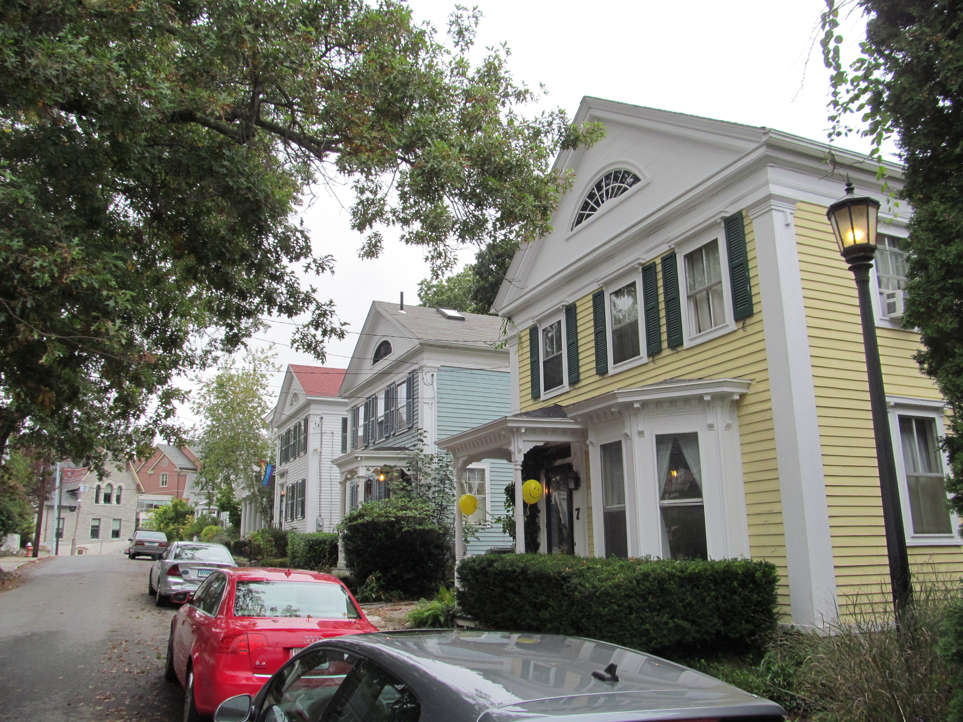 Prospect Street Historic District, New London Connecticut